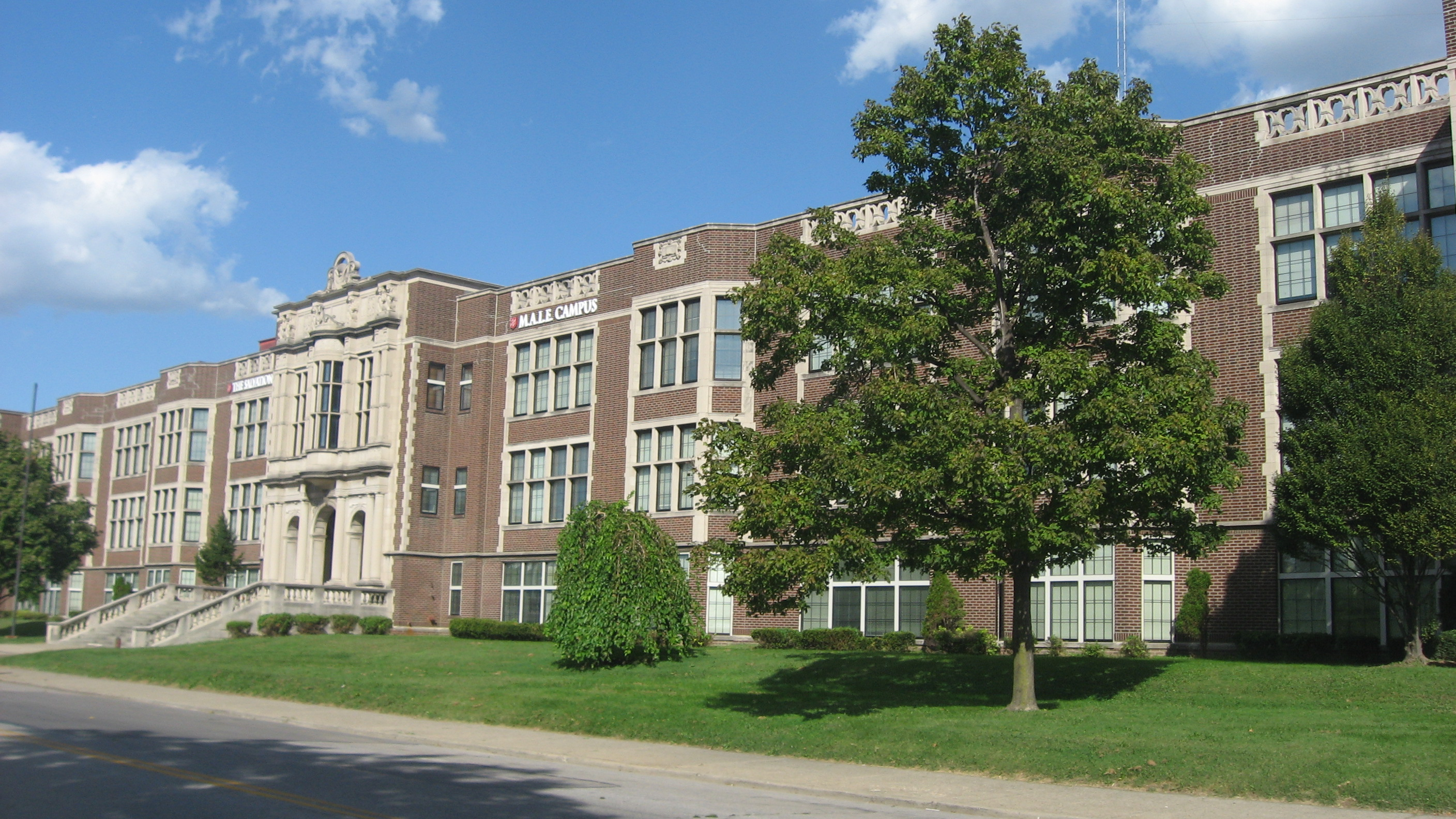 Front of the former Louisville Male High School, located at 911 S. Brook Street in Louisville, Kentucky, United States. Built in 1914 and since converted into a Salvation Army center, it is listed on the National Register of Historic Places.